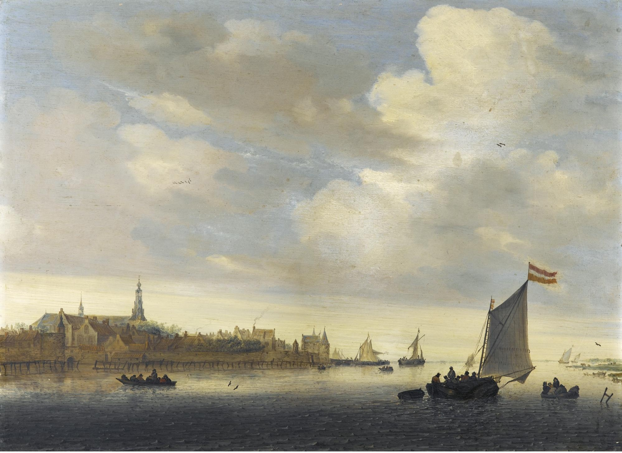 River view with the town of Weesplabel QS:Lde,"Flussansicht mit der Stadt Wesp"